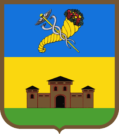 Coats of arms of Kolomatskyj raions